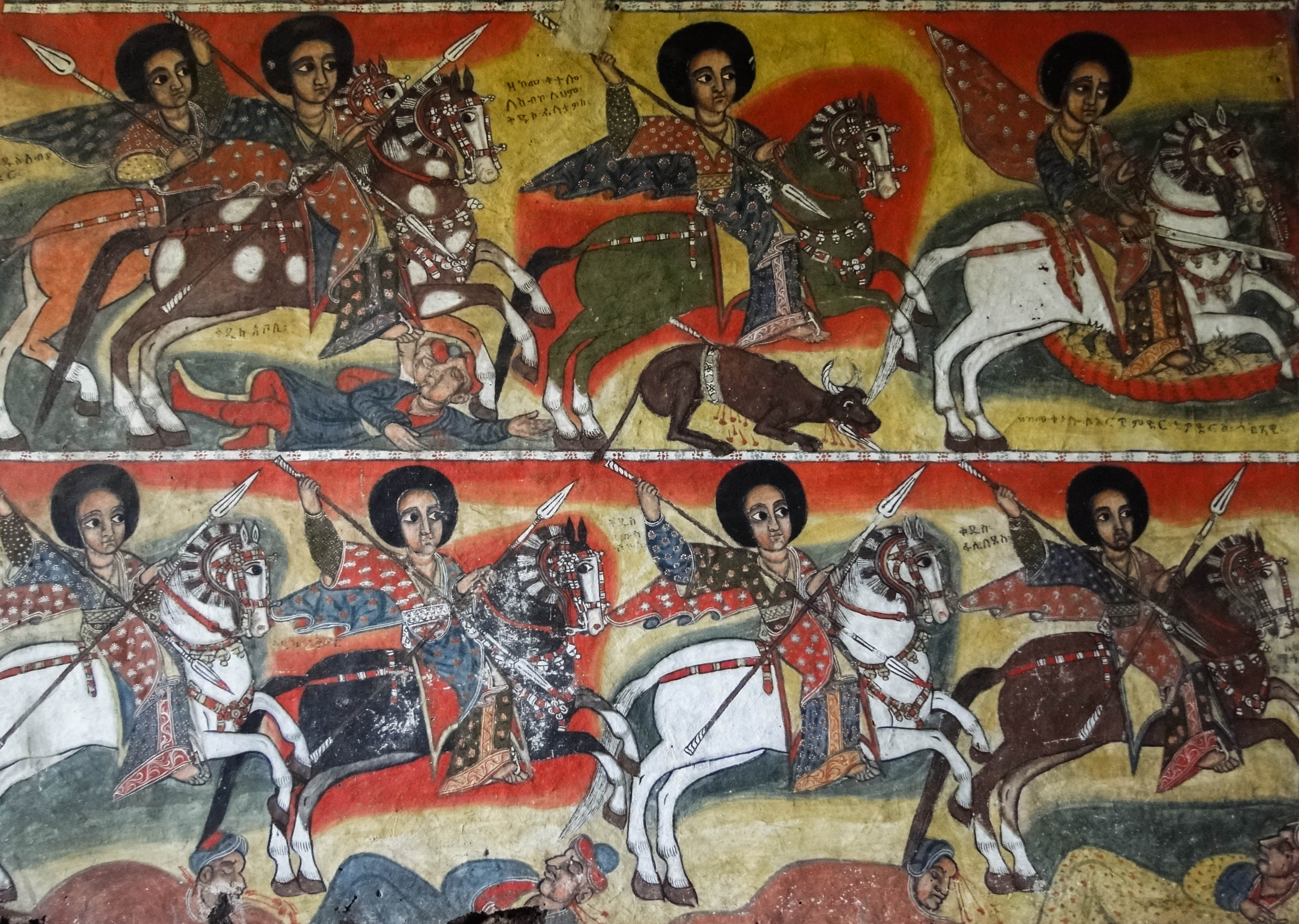 Painting of warriors in Ura Kidane Mehret Church located on the Zege peninsula in Lake Tana, Ethiopia